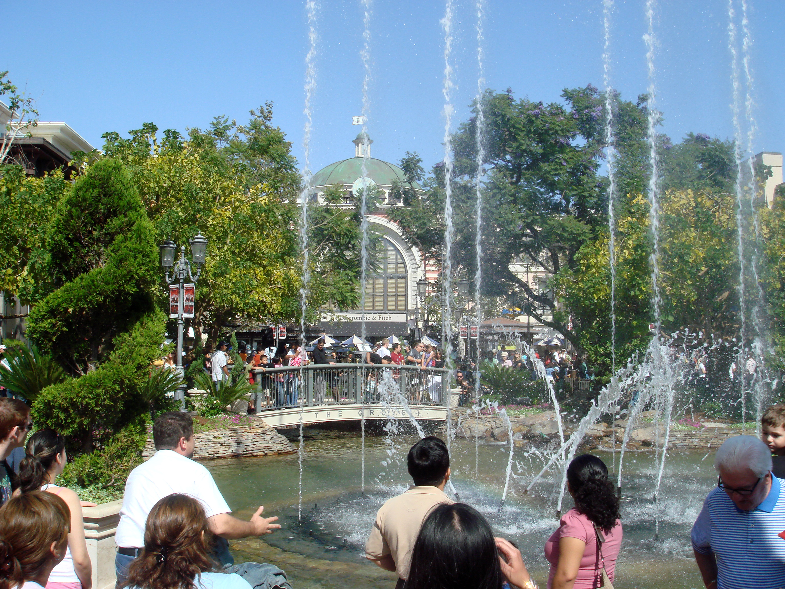 The dancing fountains at The Grove at Farmers Market in Los Angeles, California.